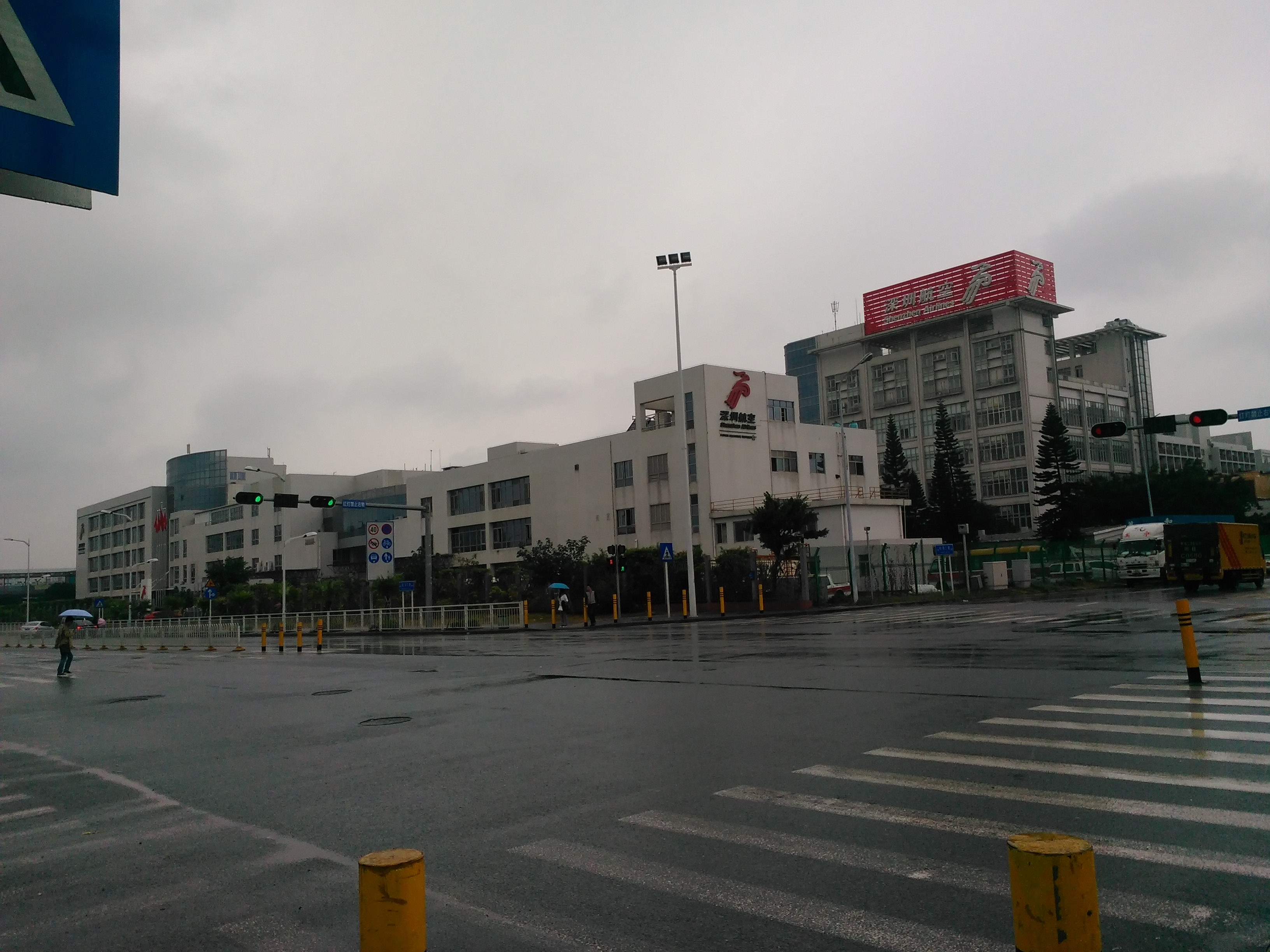 Shenzhen Airlines headquarters